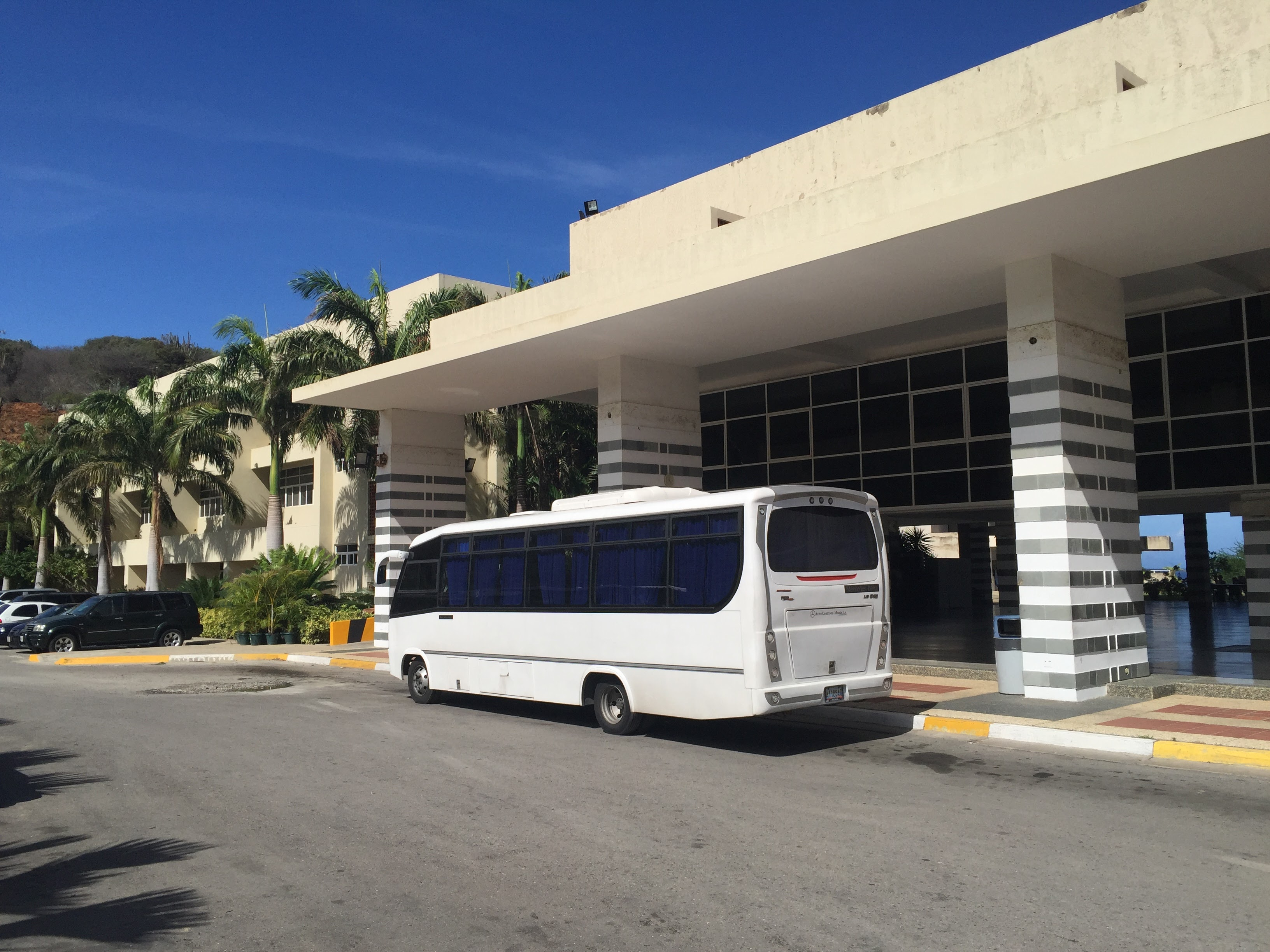 Sede en el estado Vargas de la Universidad Simón Bolívar, Venezuela.